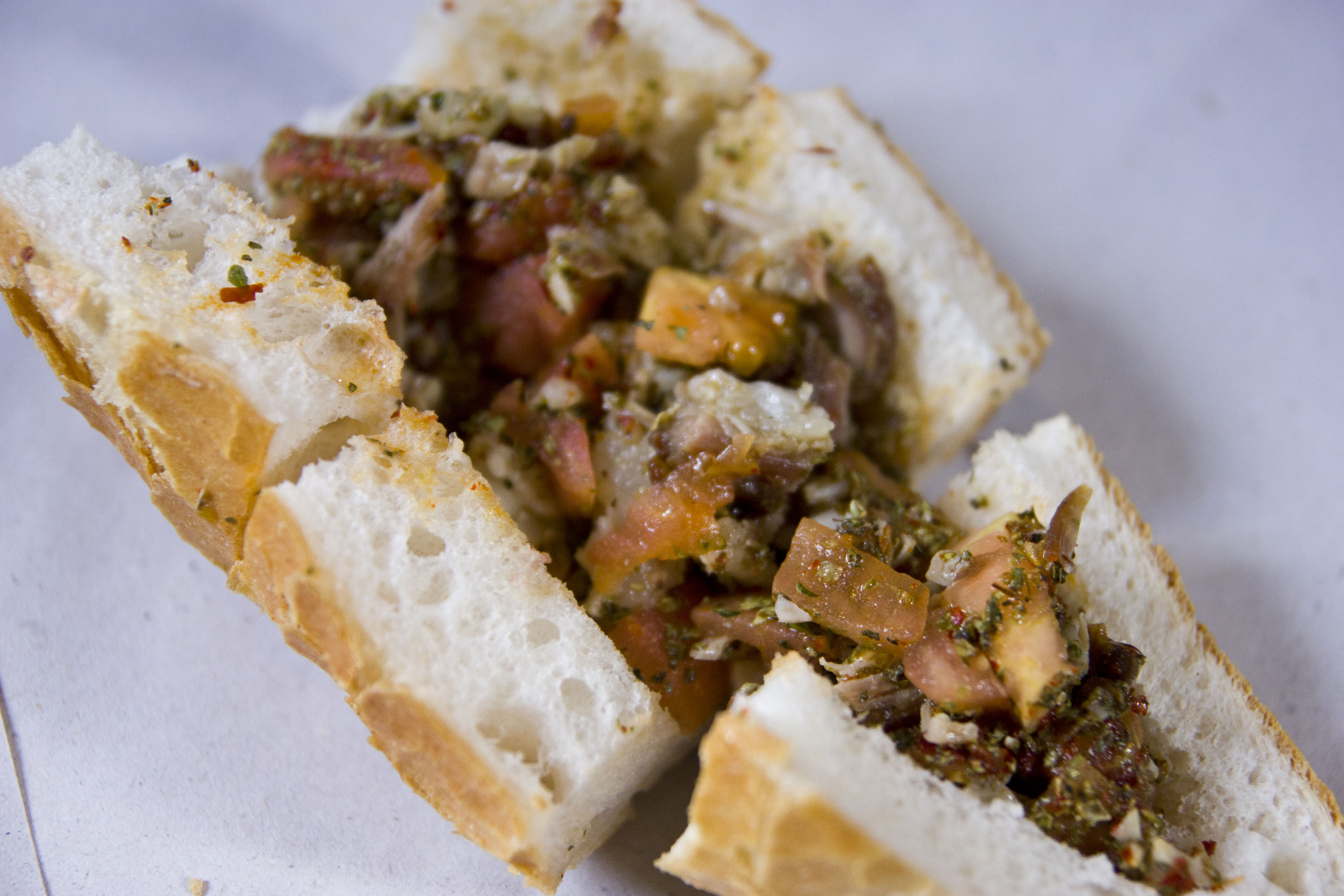 The vendor mixes the chopped innards with tomatoes and green peppers, then cooks them on a large griddle with oregano and serves it in a warm baguette.